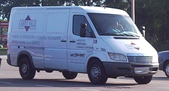 Freightliner Sprinter photographed in Orlando, Florida, USA.